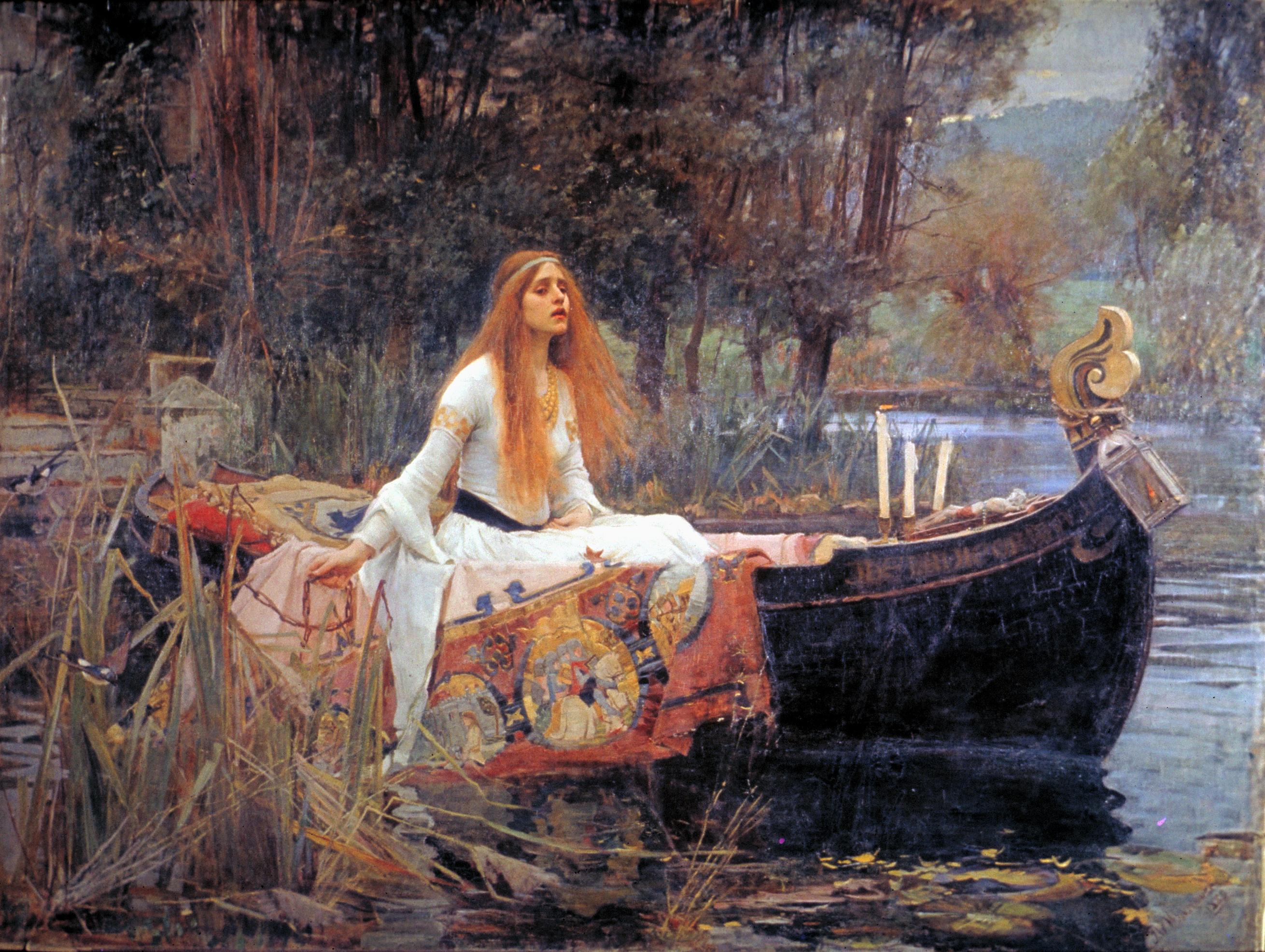 based on the poem The Lady of Shalott by Alfred Lord Tennyson."And down the rivers dim expanseLike some bold seer in a trance,Seeing all his own mischance --With a glassy countenanceDid she look to Camelot.And at the closing of the dayShe loosed the chain, and down she lay;The broad stream bore her far away,The Lady of Shalott."